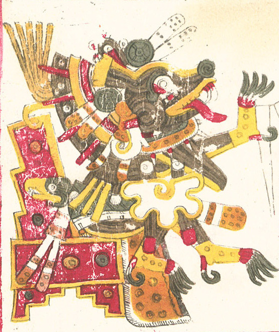 A drawing of Xolotl, one of the deities described in the Codex Borgia